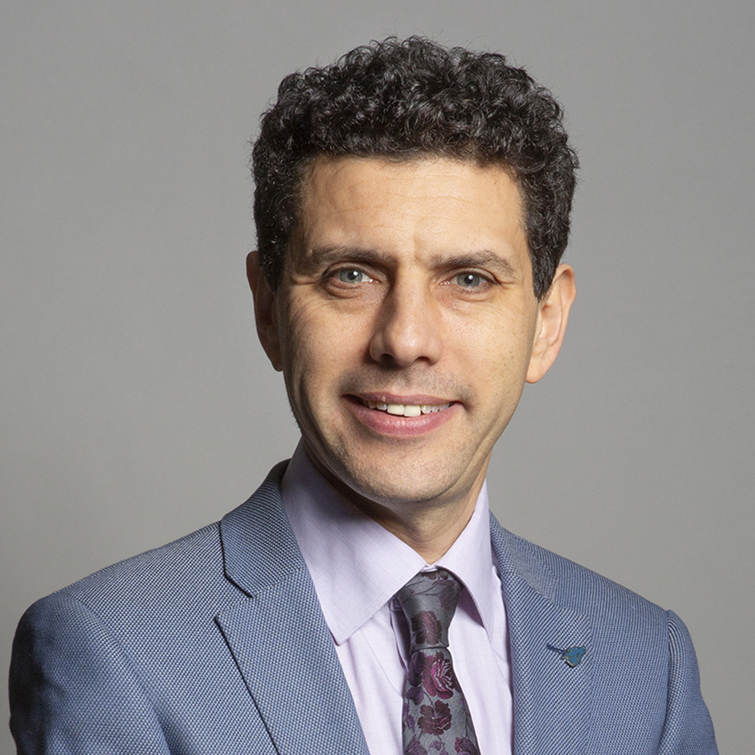 Official portrait of Alex Sobel MP 1×1 portrait of Alex Sobel